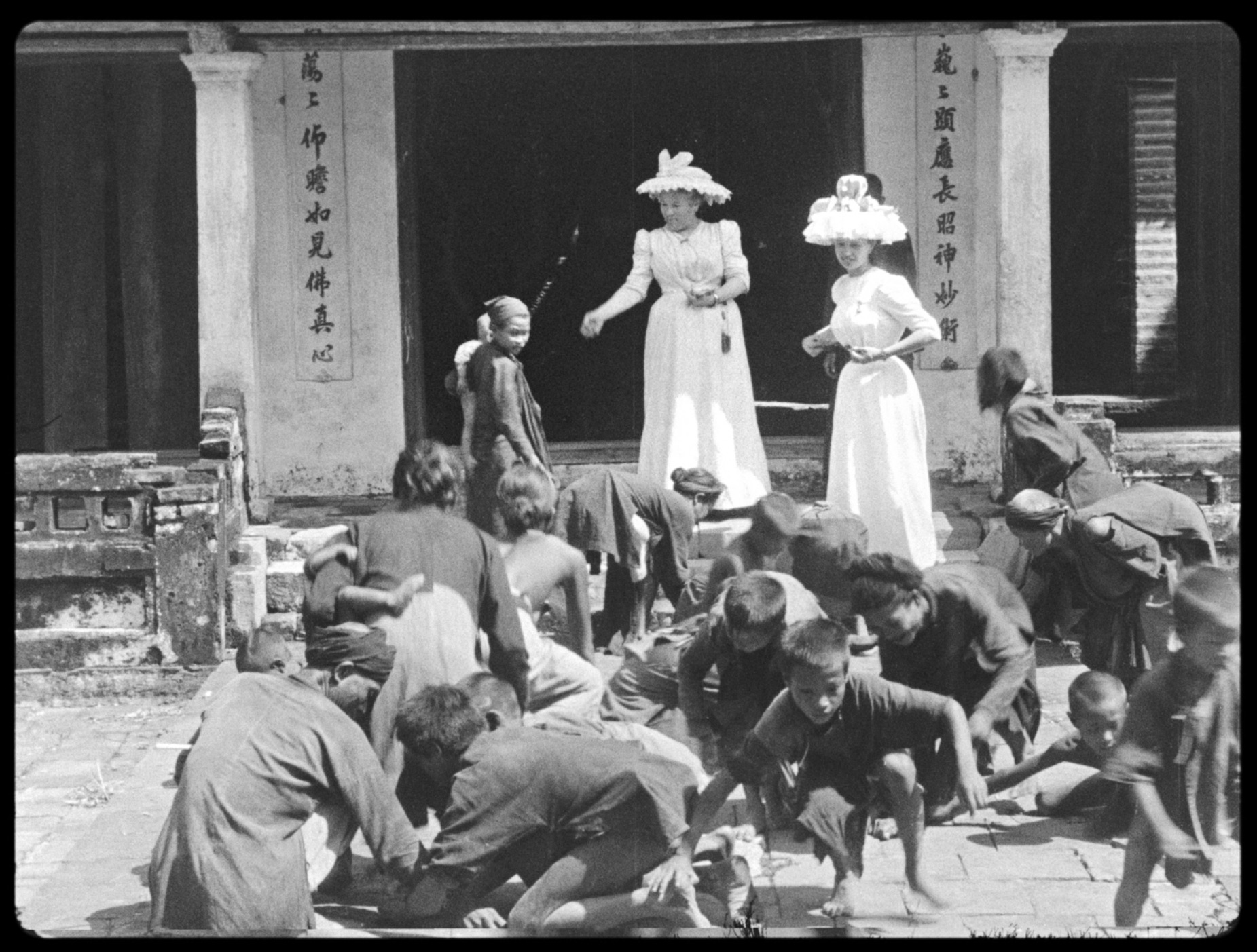 Still from a film made by Gabriel Veyre, in French Indochina (current Vietnam), between April 1899 and March 1900. It depicts two women (wife and daughter of Governor-General Paul Doumer) throwing small coins in front of Annamite children. Item number 1274 in the Lumière film catalog.